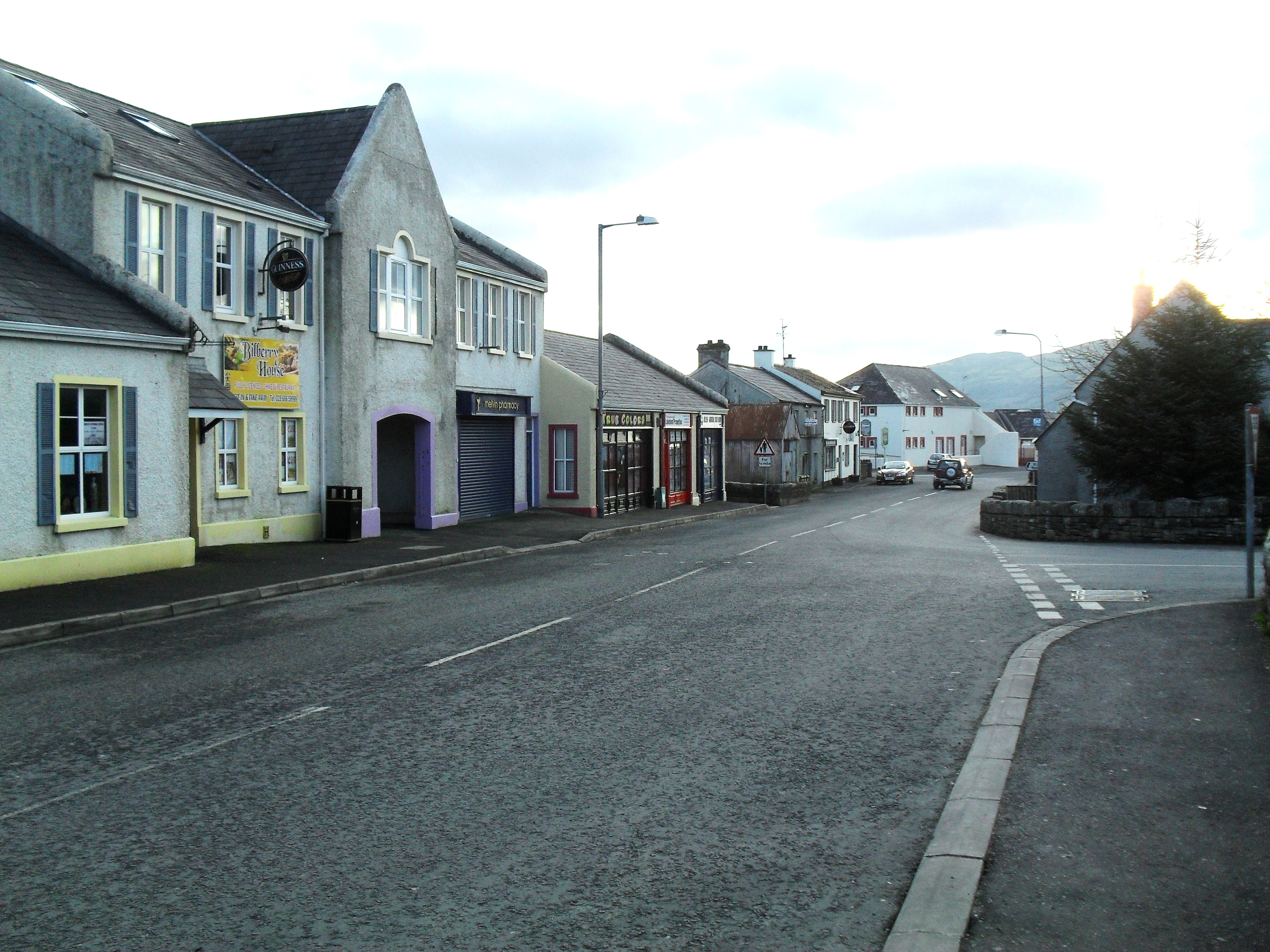 Main Street, Garrison A quiet Sunday afternoon (or maybe every day is like this) in the County Fermanagh village of Garrison - which sits right on the border.